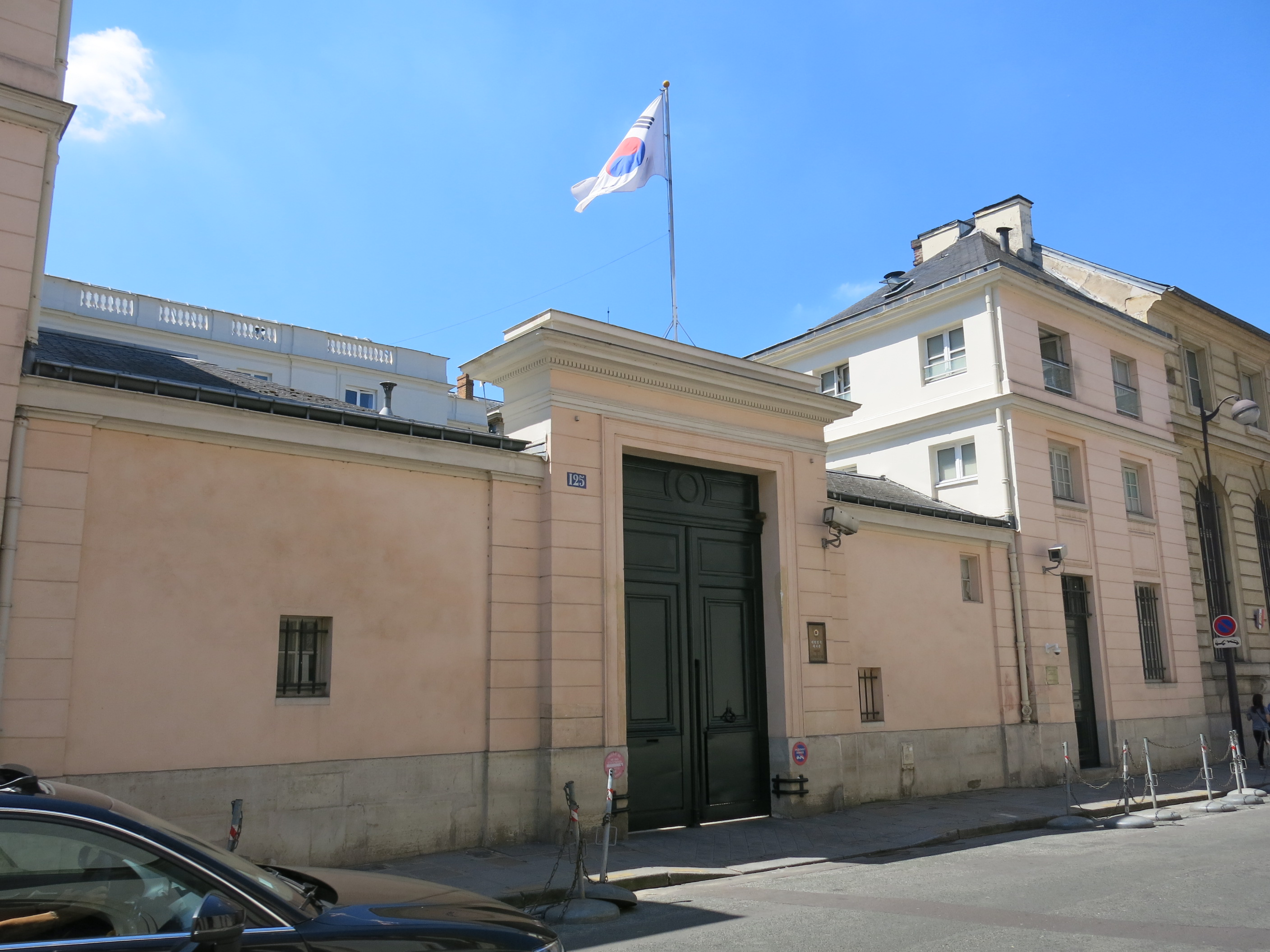 Building 125 rue de Grenelle, Paris 7th arrond. (France). In 2016, this is the embassy of South Korea.